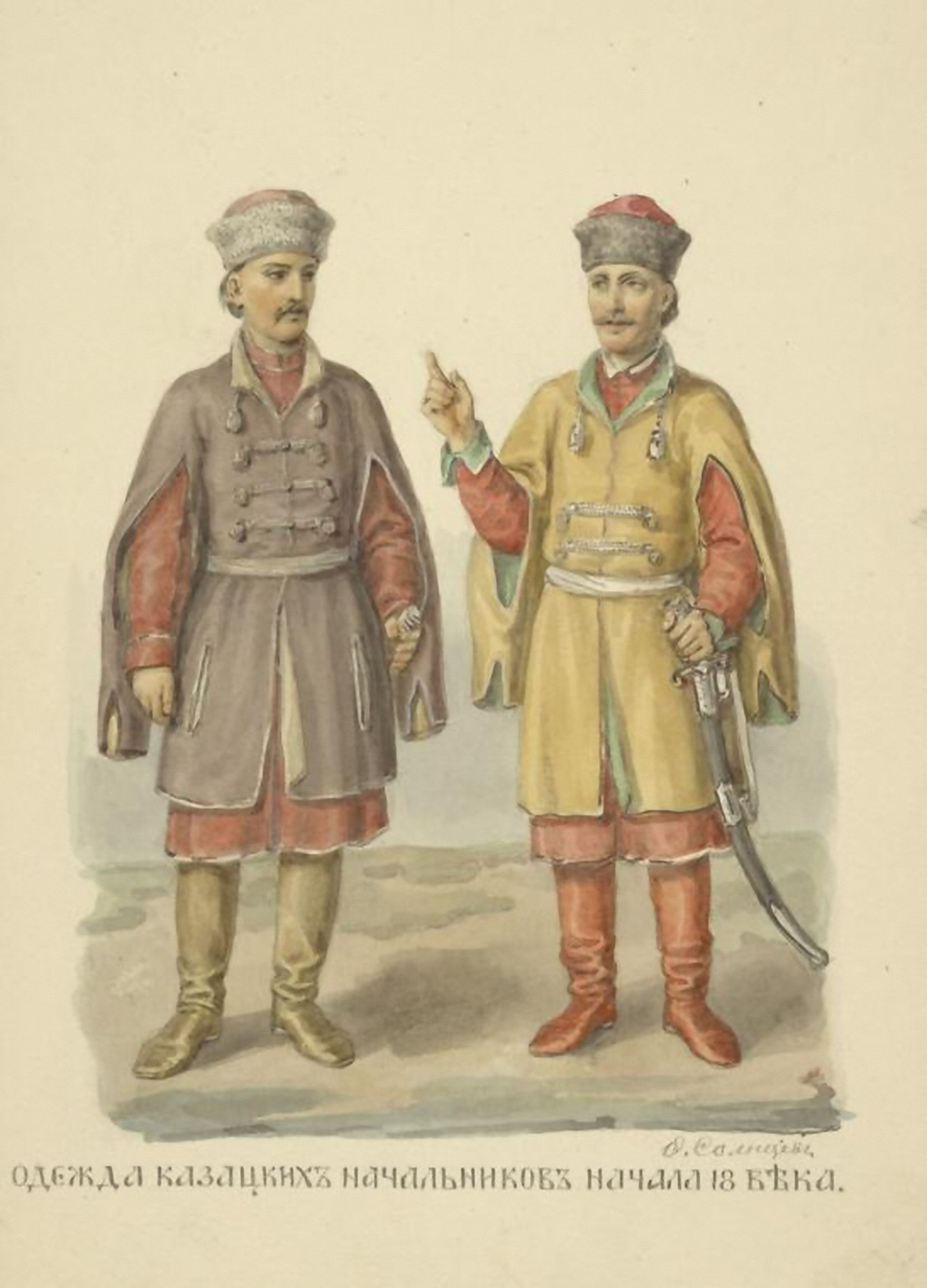 Uniform of Cossack chiefs in the beginning of the 18th century